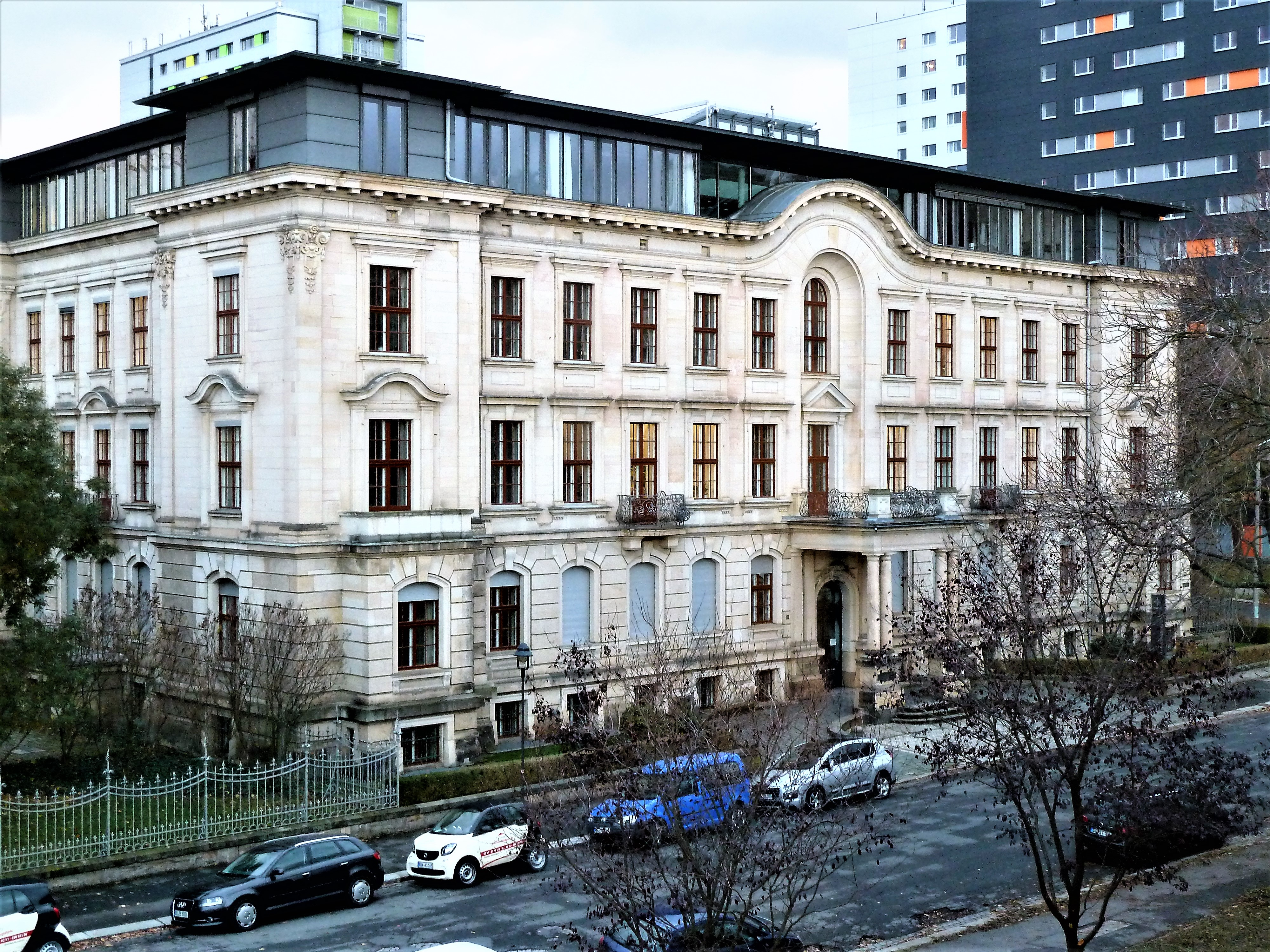 From 1897 until 1914 Palace of the Imperial Russian Legation in Saxony and since 1933 see of the bishop and administration of the Evangelical-Lutheran Church in Saxony.